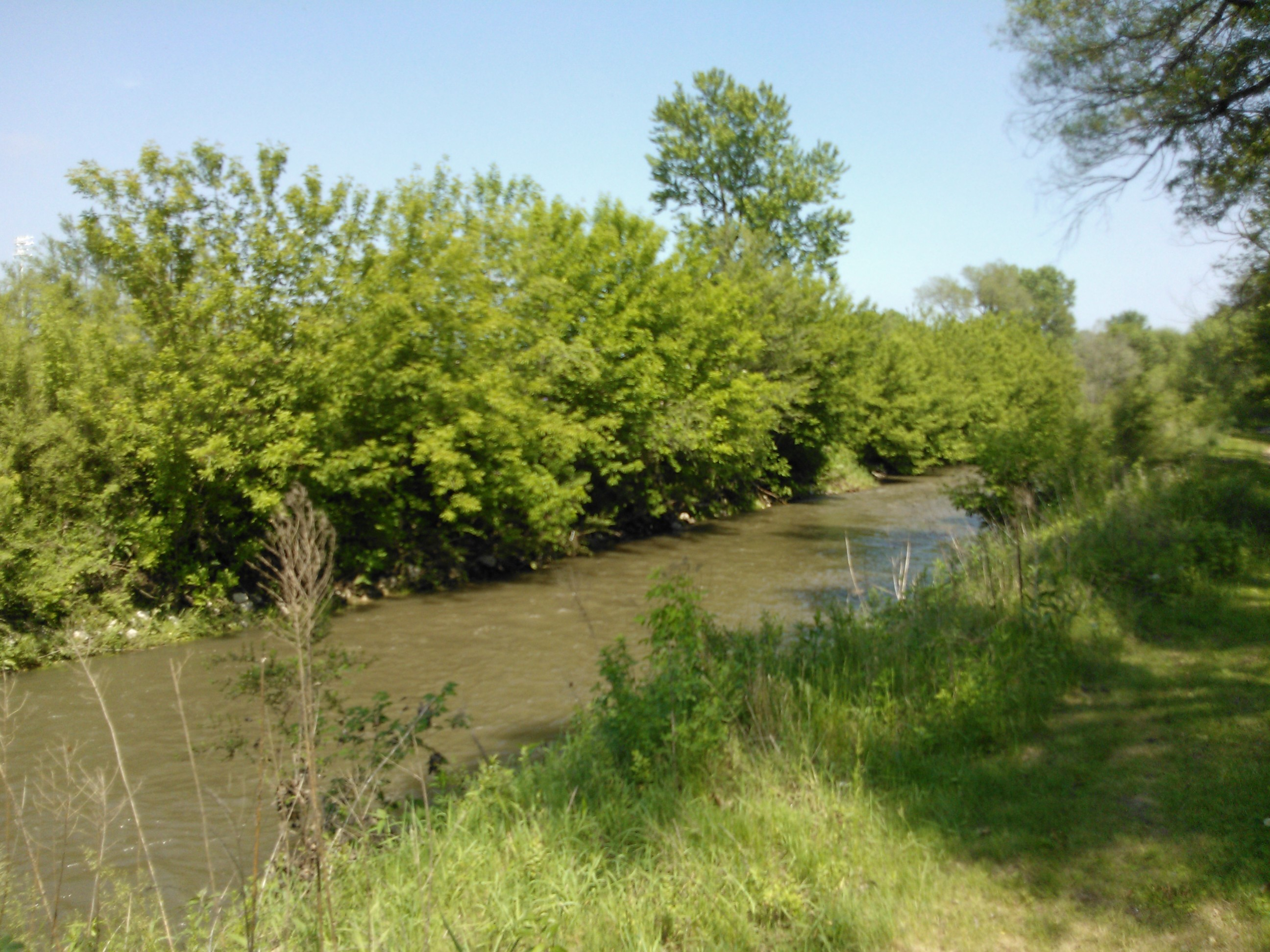 Duck Creek near Brady Street in Davenport, Iowa